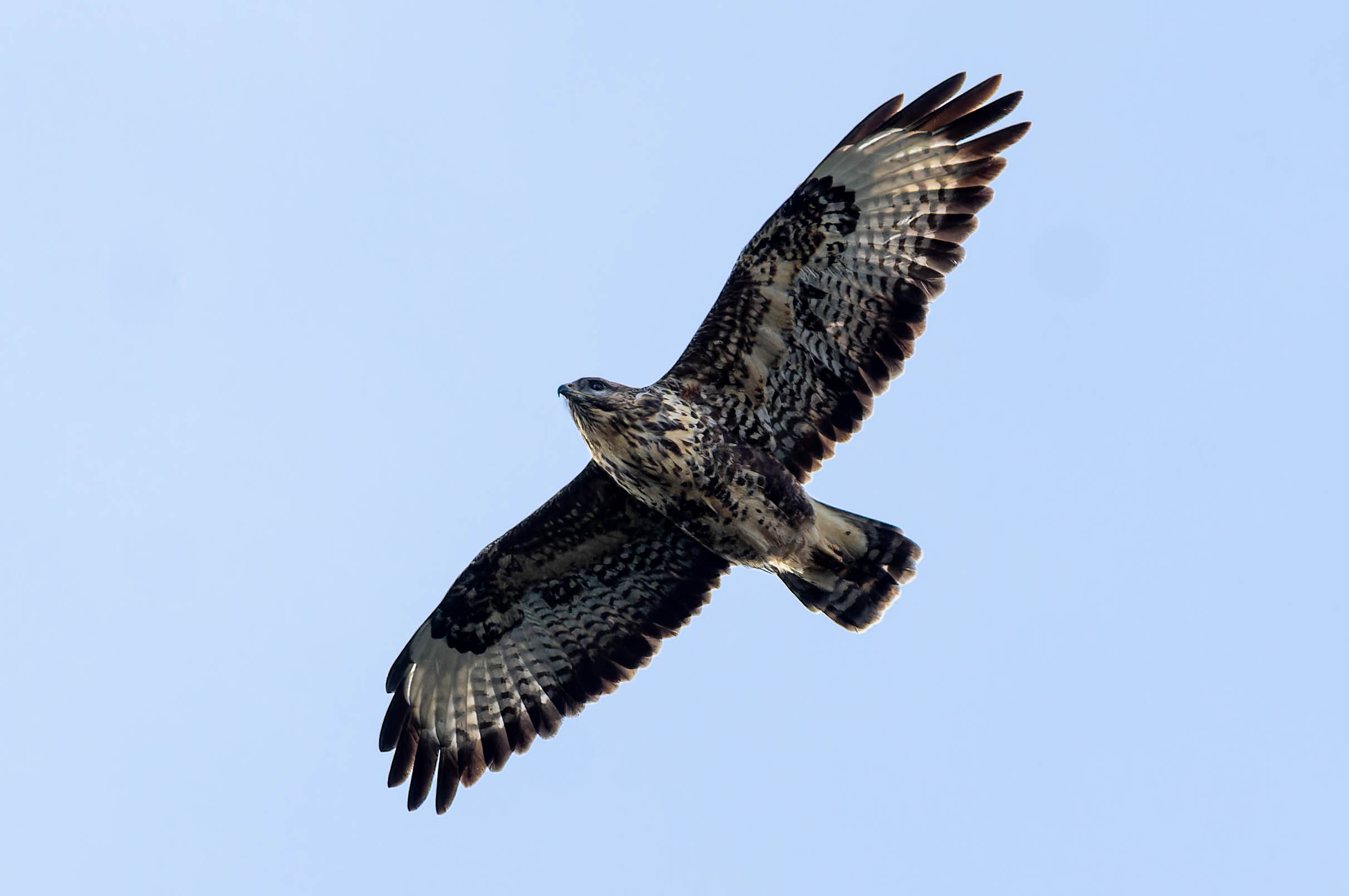 Common Buzzard, subspecies Buteo buteo insularum (syn. B. b. rothschildi), Terceira, Azores